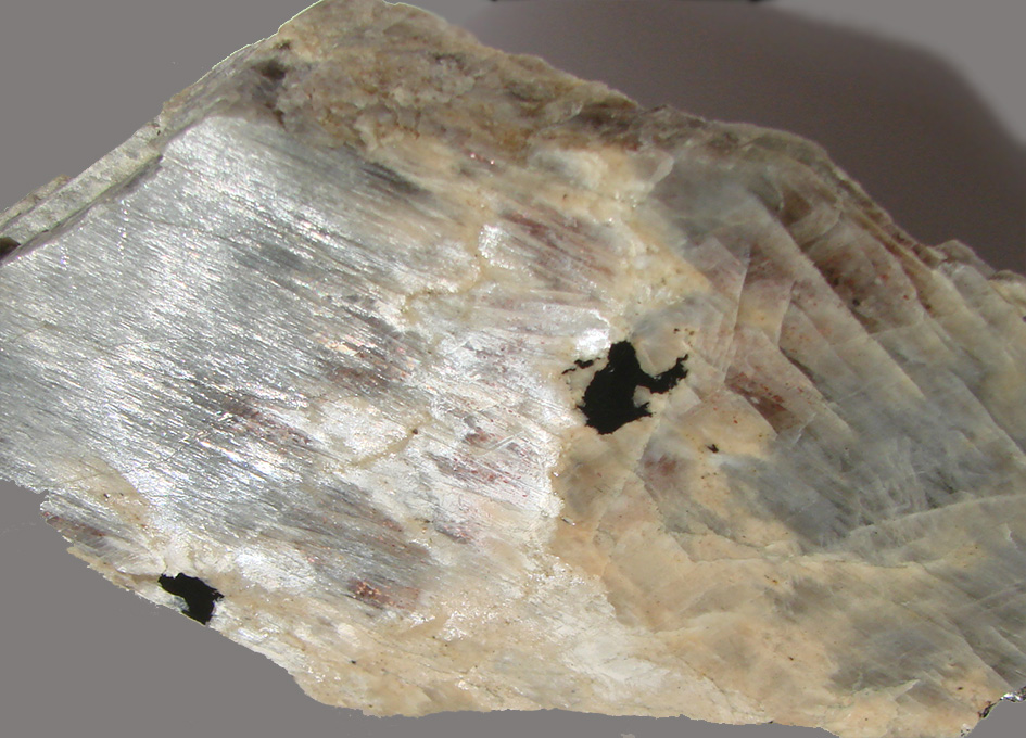 Orthoclase,moonstone